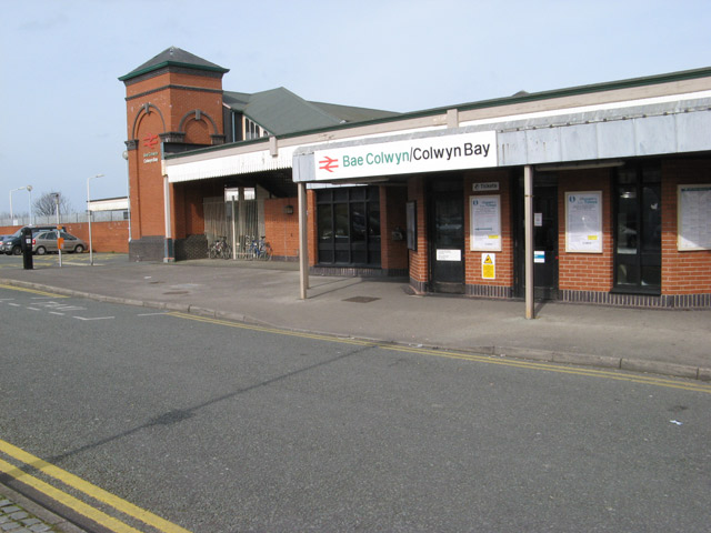 Colwyn Bay station The road space in front of the ticket hall was originally part of the railway, since the station had two platform loops and goods lines. Accordingly, the facade of the station and down platform accommodation is entirely new, with a level approach from the car park spanning a short cut-and cover tunnel section of the A55. The footbridge originally spanned more lines, and the lift tower has been reconstructed accordingly.